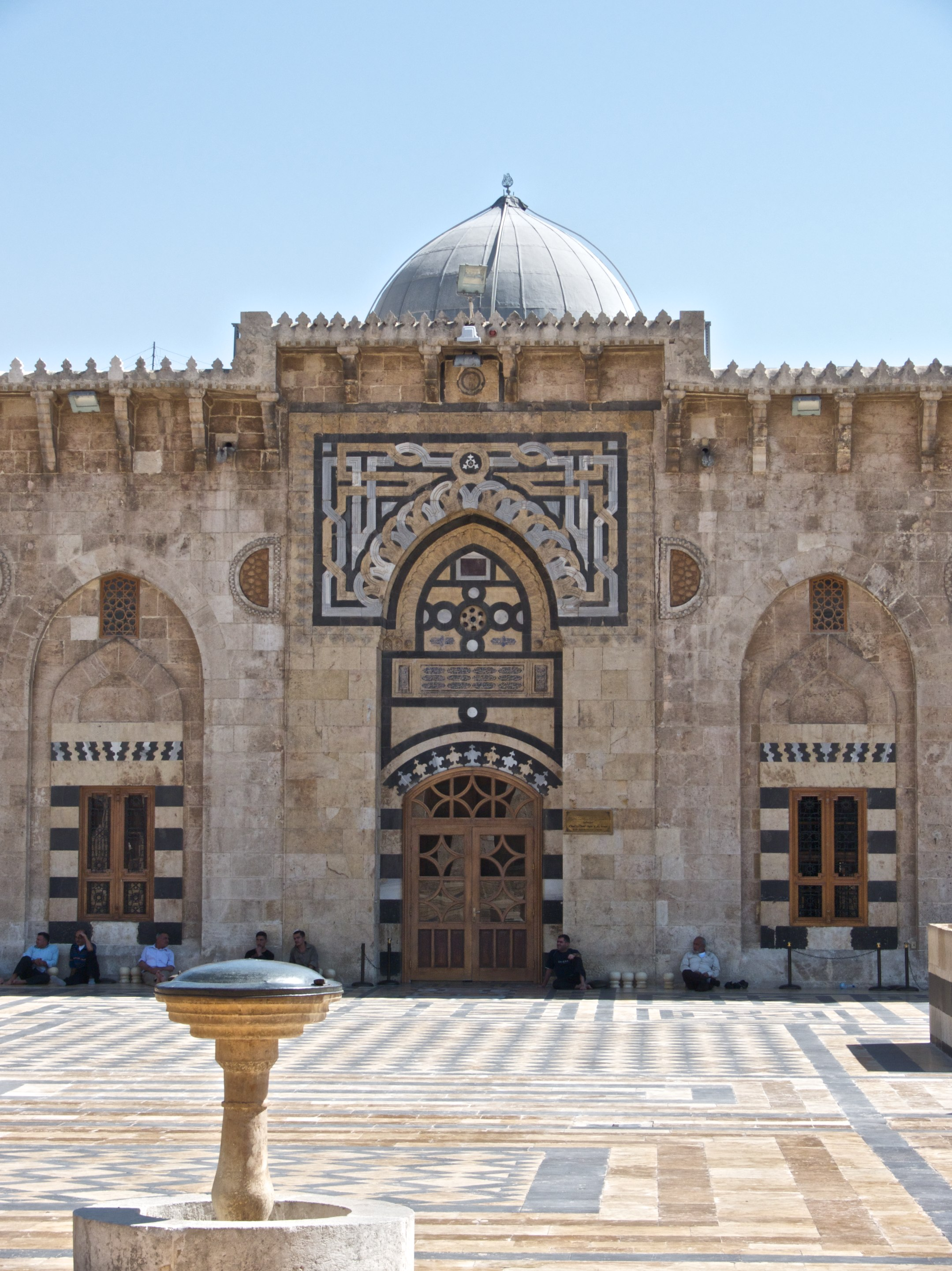 insid the Great Omaayad mosque of Aleppo